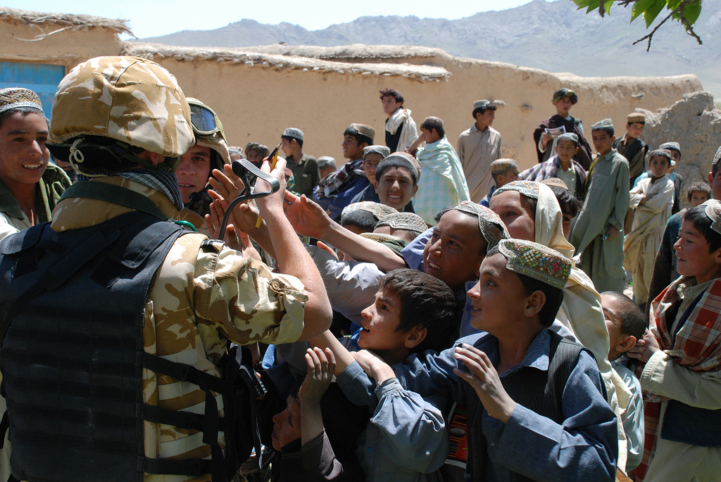 Romanian Soldiers share gifts children from a village from the South of Afghanistan, April 21st, 2009. Photo by Constantin Mireanu of Romania.